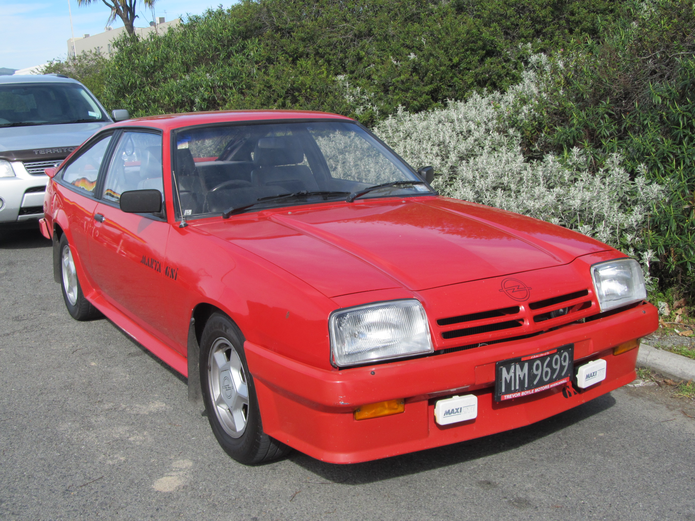 MM9699 As this is my 900th photo I thought I'd make it something special! This is the only Manta I have ever seen, and it is an absolute minter. I spied it down a side street in Riccarton and had to detour to get some photos of it! Ironically, I actually saw it the day before I got photos of it on the other side of town, idling at an intersection...